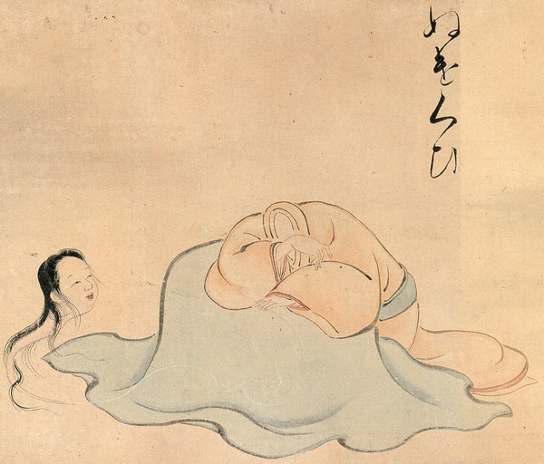 Nukekubi (ぬけくび) from the Bakemono-Dukushi Yumoto-C (化け物づくし 湯本C本)